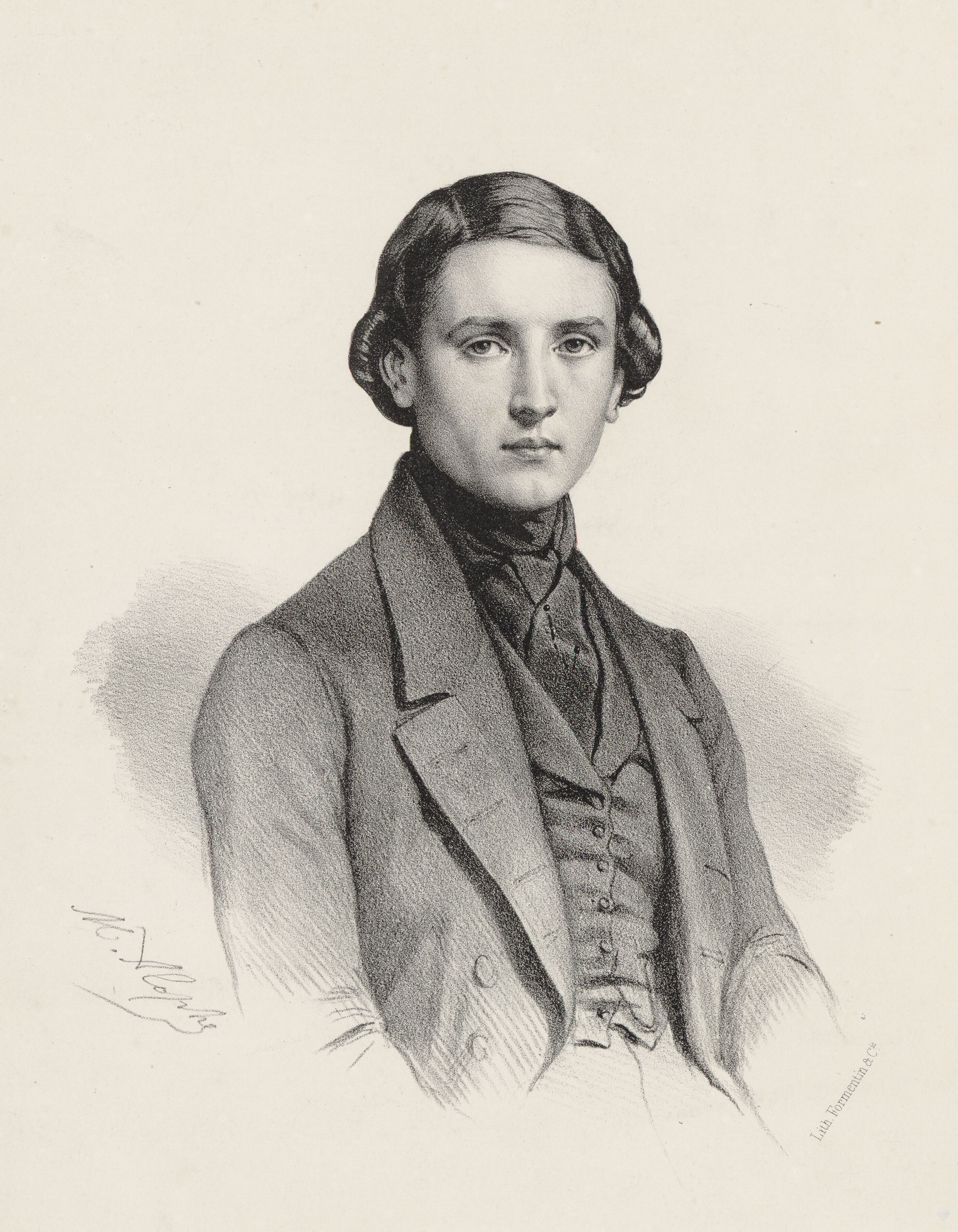 Louis James Alfred Lefébure-Wély